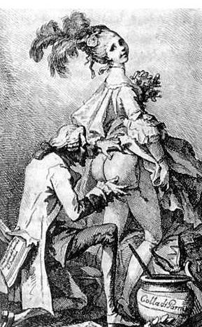 Humoristic drawing showing Giuseppe Colla (whose surname in Italian means "Glue") glueing a fake bum to singer Lucrezia Agujari (La Bastardella).